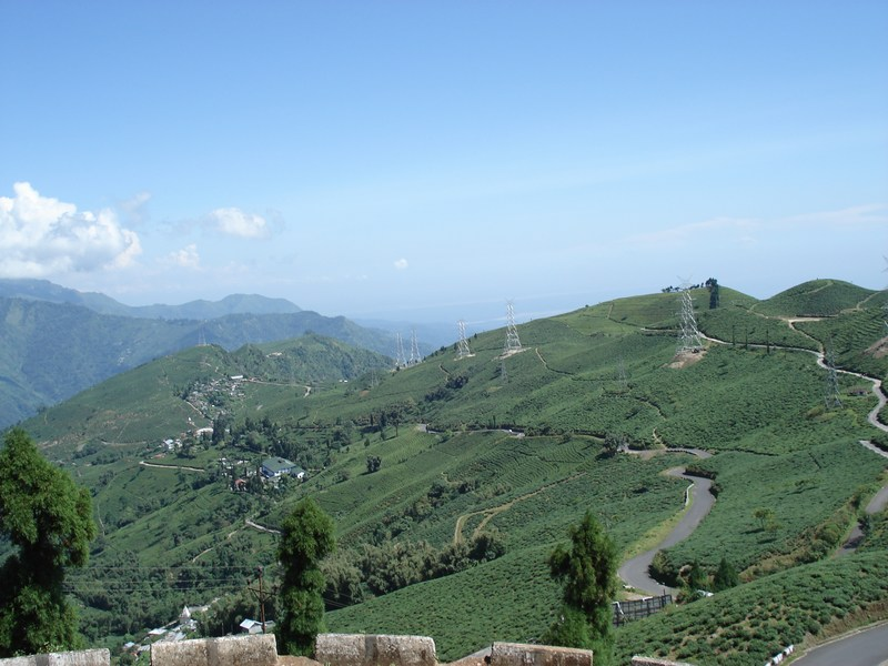 A tea garden with a tea processing factory in Darjeeling.